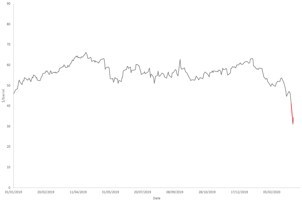 The daily closing prices of WTI oil per barrel between 1 January 2019 and 18 March 2020 as traded in the New York Mercantile Exchange